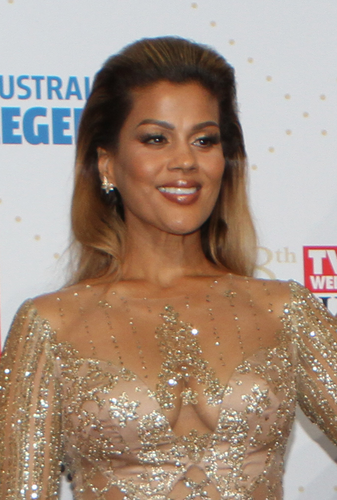 The Real Housewives of Melbourne 2016 TV Week Logie Awards